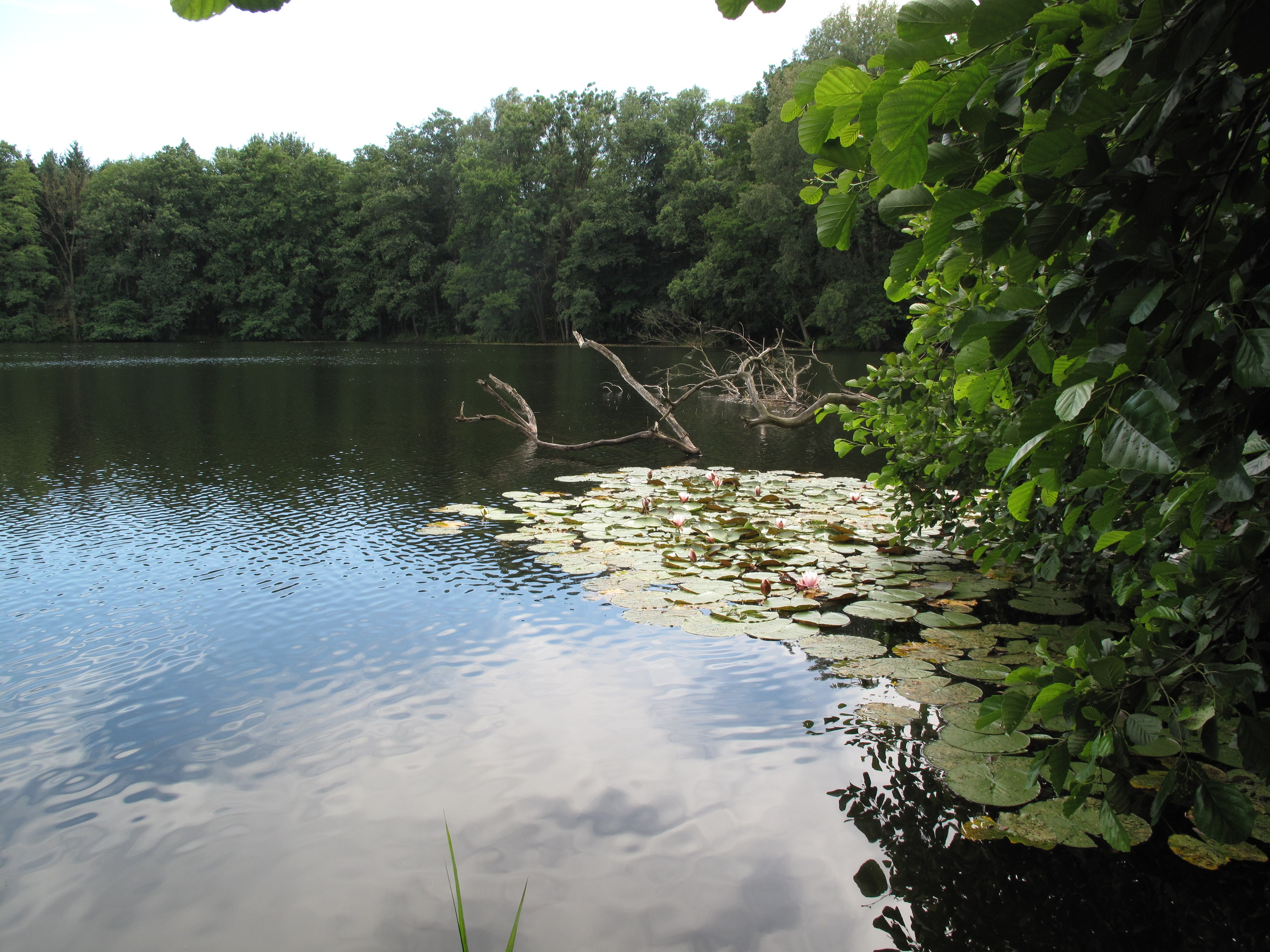 The Kesselsee is a lake in Altfriedland, a village of the municipality Neuhardenberg in the District Märkisch-Oderland, Brandenburg, Germany. The lake covers 3,5 hectare and is situated in the Märkische Schweiz Nature Park.